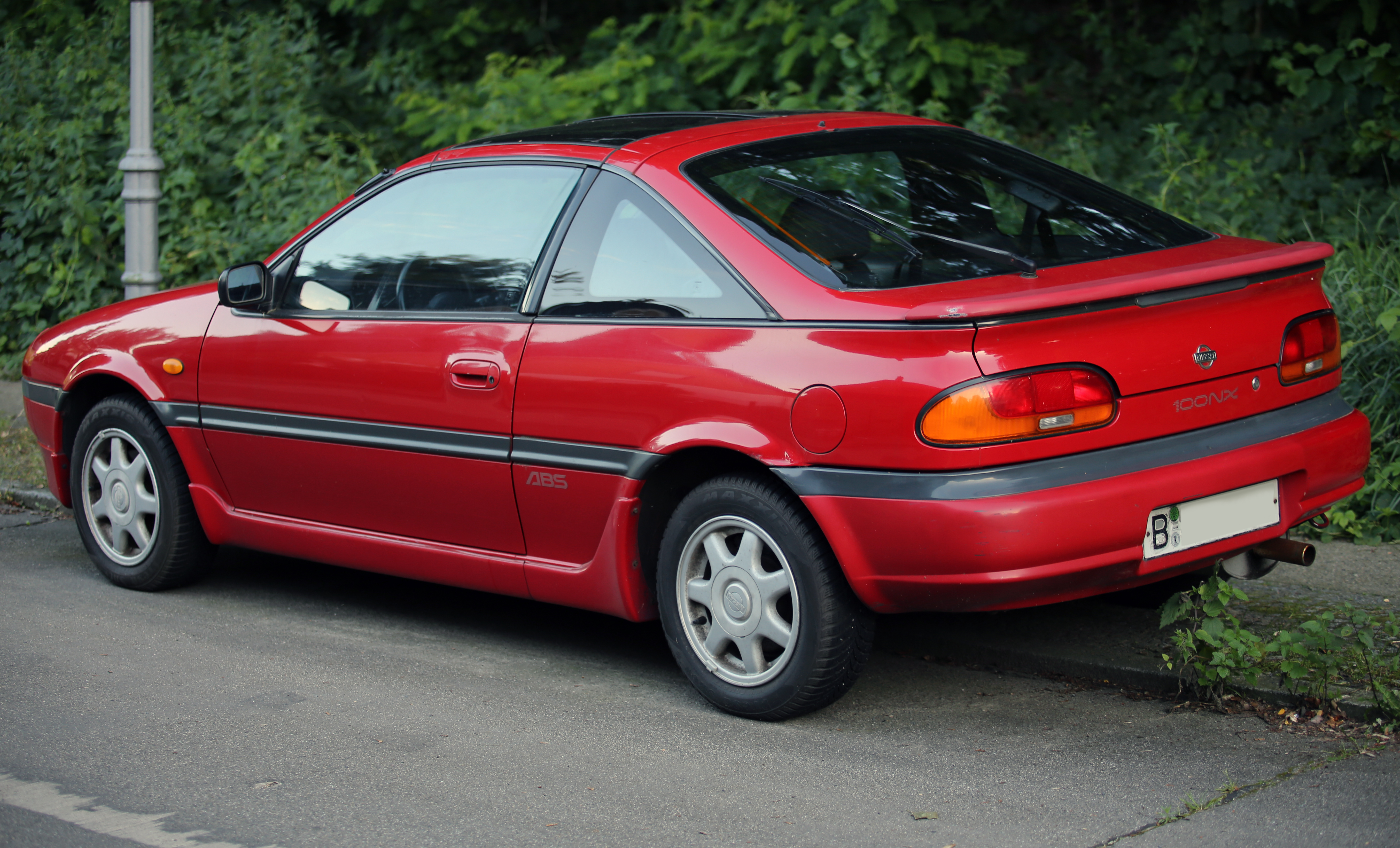 1990s Nissan 100NX 2.0 T-bar in Berlin.